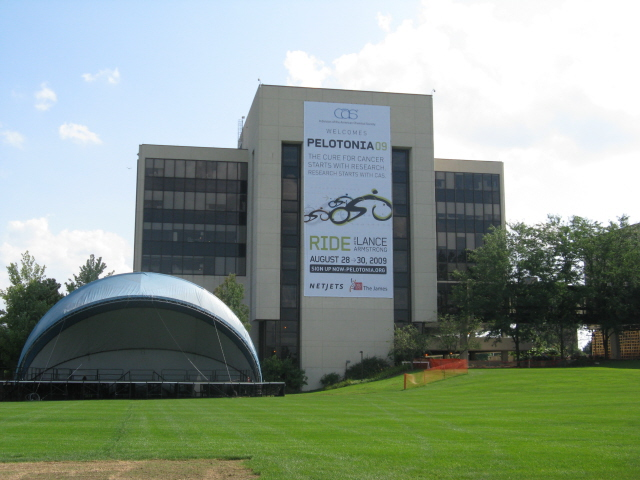 Bldg. B at CAS in Columbus, Ohio. Special banner hanging in prep. for Pelotonia bike ride, Aug. 2009. Also note Picnic w/Pops bandstand on ground.